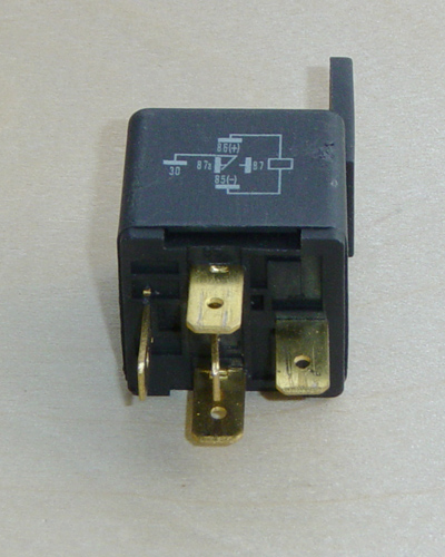 Automotive relay, 12 volt coil, 30A SPDT contacts. Note confusing positioning of graphic due to rotated body by 180 degrees.